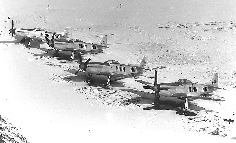 109th Fighter Squadron F-51 Mustangs late 1940s